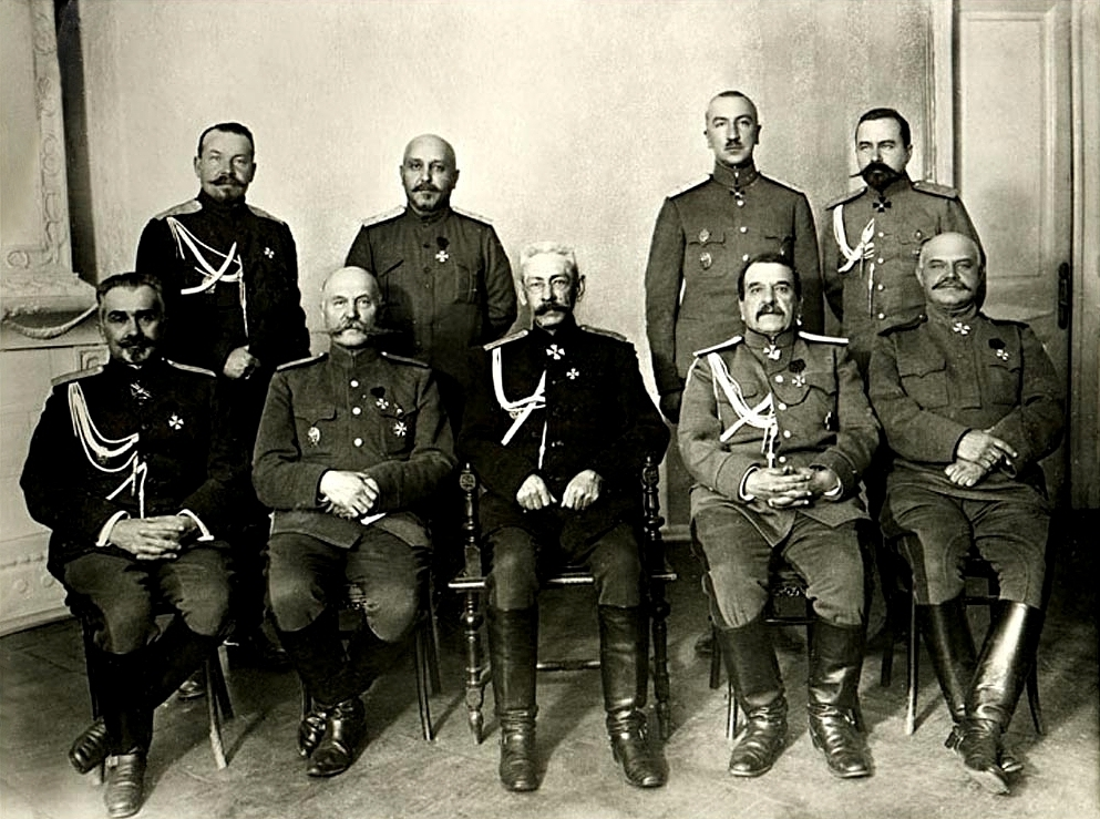 Russian generals: Sitting: Yuri Danilov, Alexander Litvinov, Nikolai Ruzsky, Radko Dimitriev, Abram Dragomirov; Standing: Vasily Boldyrev, Ilia Odishelidze, V.V. Belyaev, Evgeny Miller.